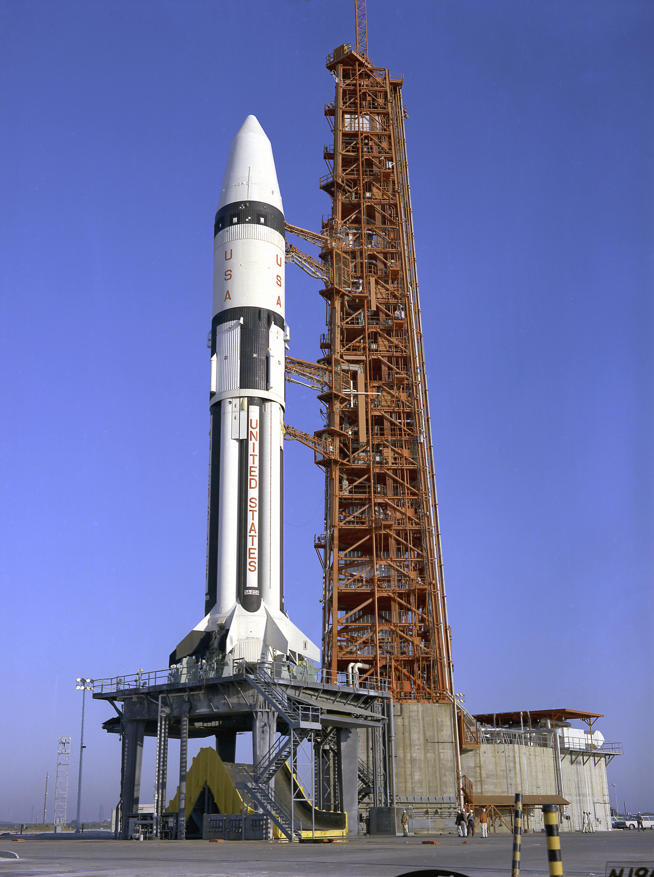 Saturn IB AS-204 awaits its liftoff from pad LC-37B, Cape Canaveral, Florida for the Apollo 5 mission.